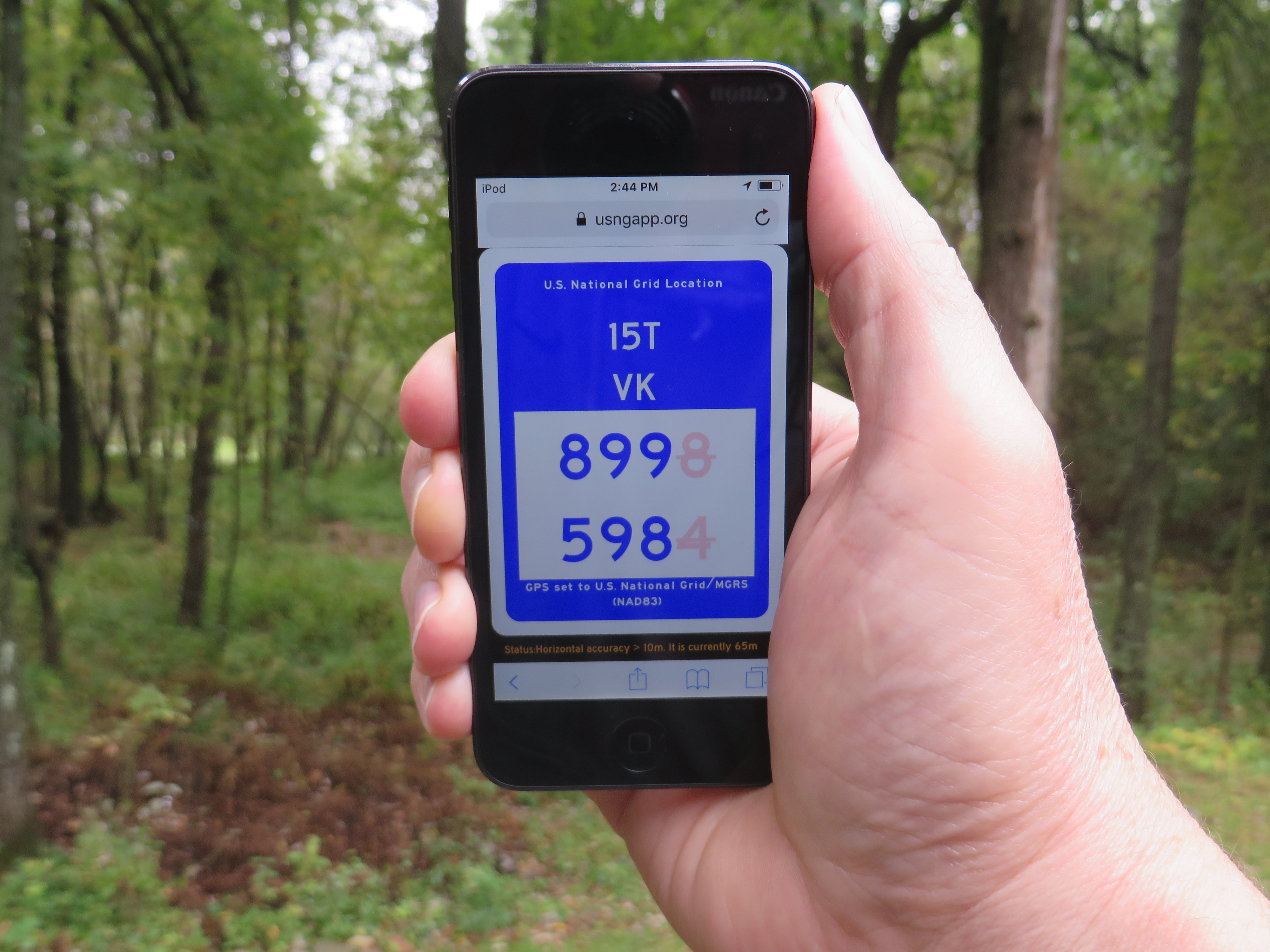 was developed to provide a GPS location readout on mobile devices in the format which effectively matches the one found on USNG ELM signage. It is free to use and works on any mobile device. The display shows the mobile device sensed GPS location in an open browser page. An internet connection is not required after it is loaded the first time.